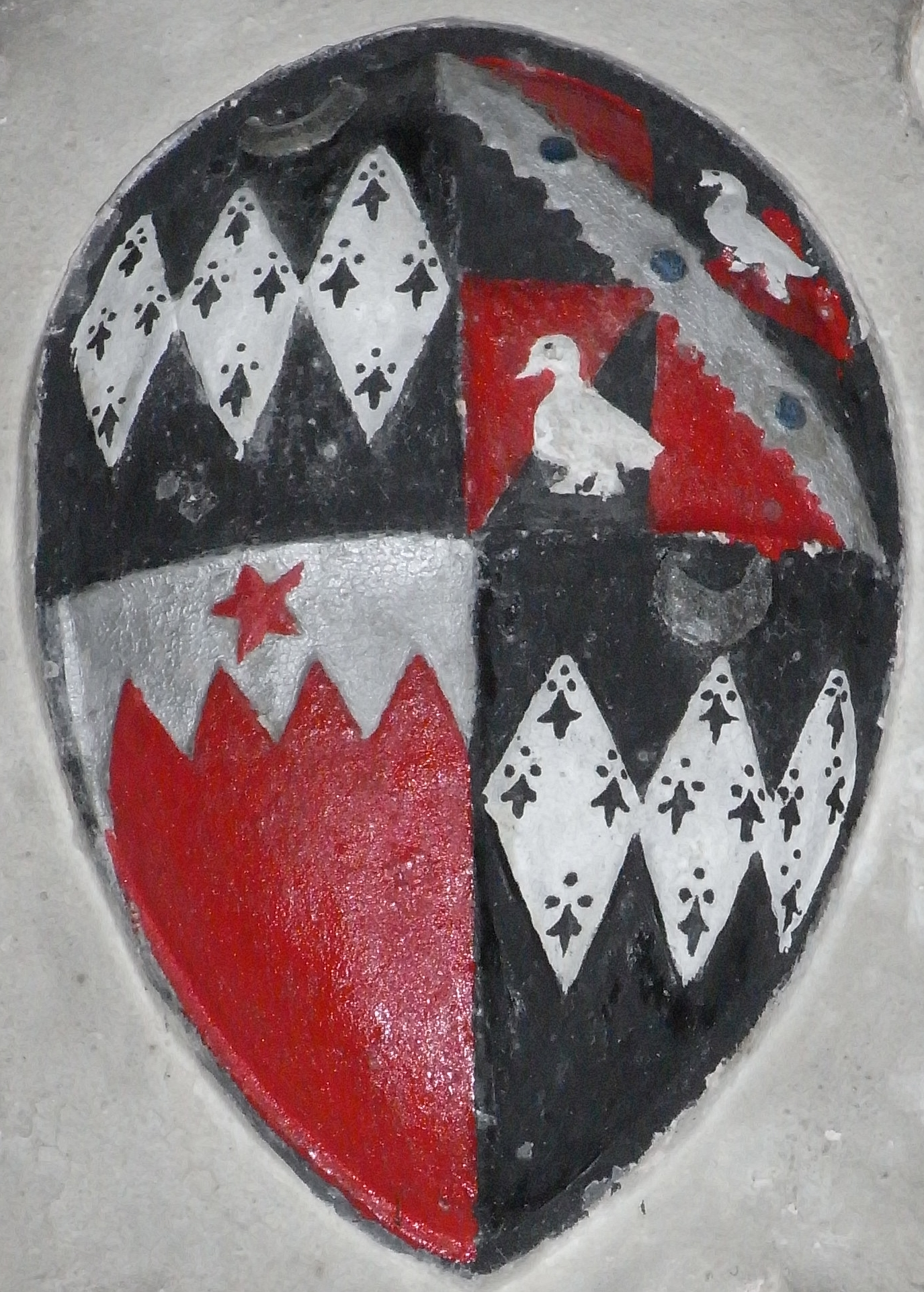 Heraldic cartouche c.1622 on monument to John Giffard (d.1622) of Brightley, in the Brightley Chapel of Chittlehampton Church, Devon. Arms shown are: Quarterly 1st & 4th, Giffard; 2nd Coblegh of Brightley; 3rd Gules, on a chief indented argent a mullet of the first (FitzWarren of Brightley)